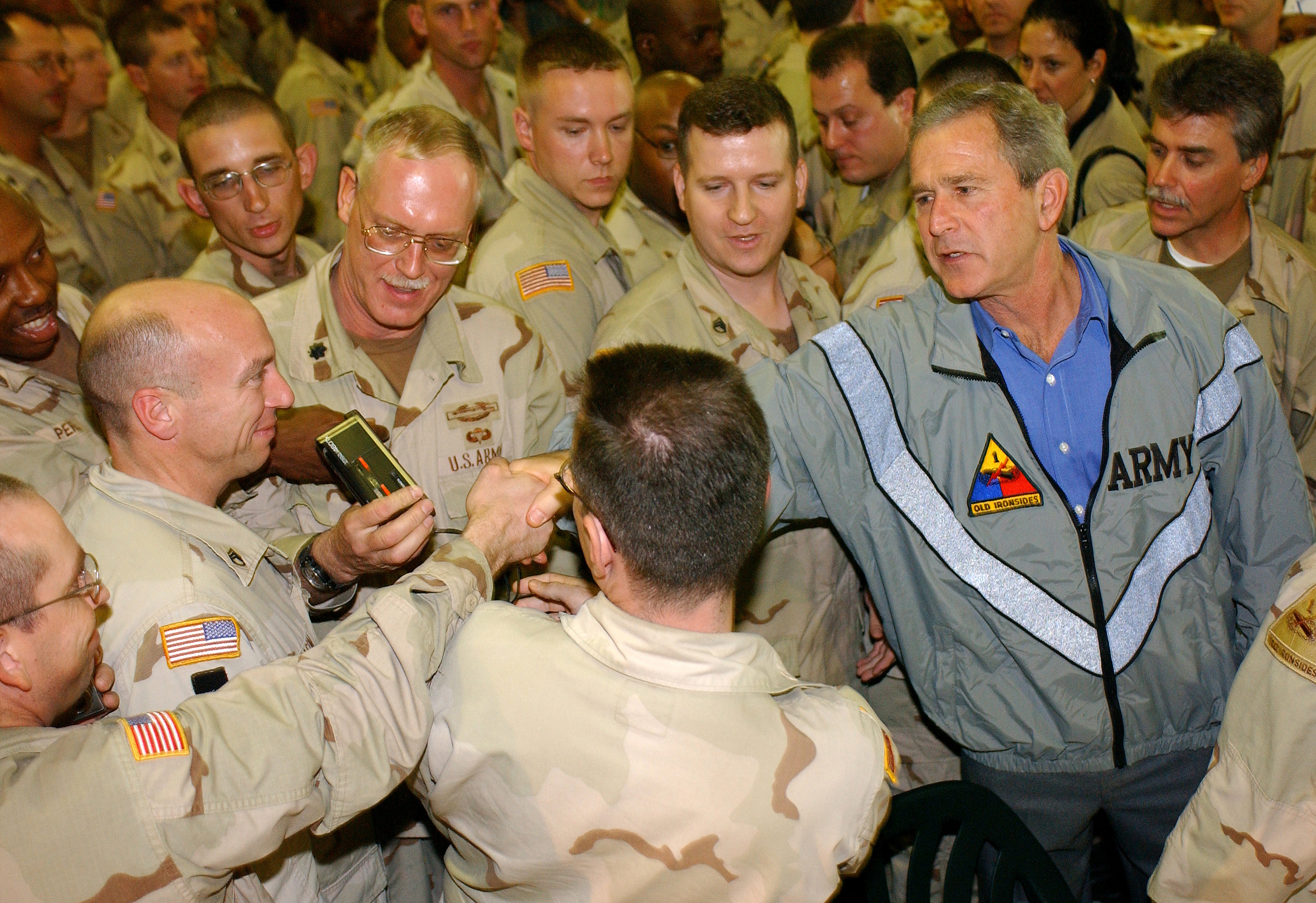 Baghdad, Iraq (Nov. 27, 2003) -- President George W. Bush pays a surprise visit to Baghdad International Airport (BIAP). He gives an uplifting speech at the Bob Hope dining facility on Thanksgiving Day to all the troops stationed there. After his speech, troops were given the opportunity to get their photos taken with President Bush. The President also served a traditional Thanksgiving dinner to the troops. U.S. Air Force photo by Staff Sgt. Reynaldo Ramon. (Released)